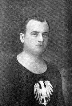 Mieczysław Batsch (or Bacz), polish football player (about 1925)